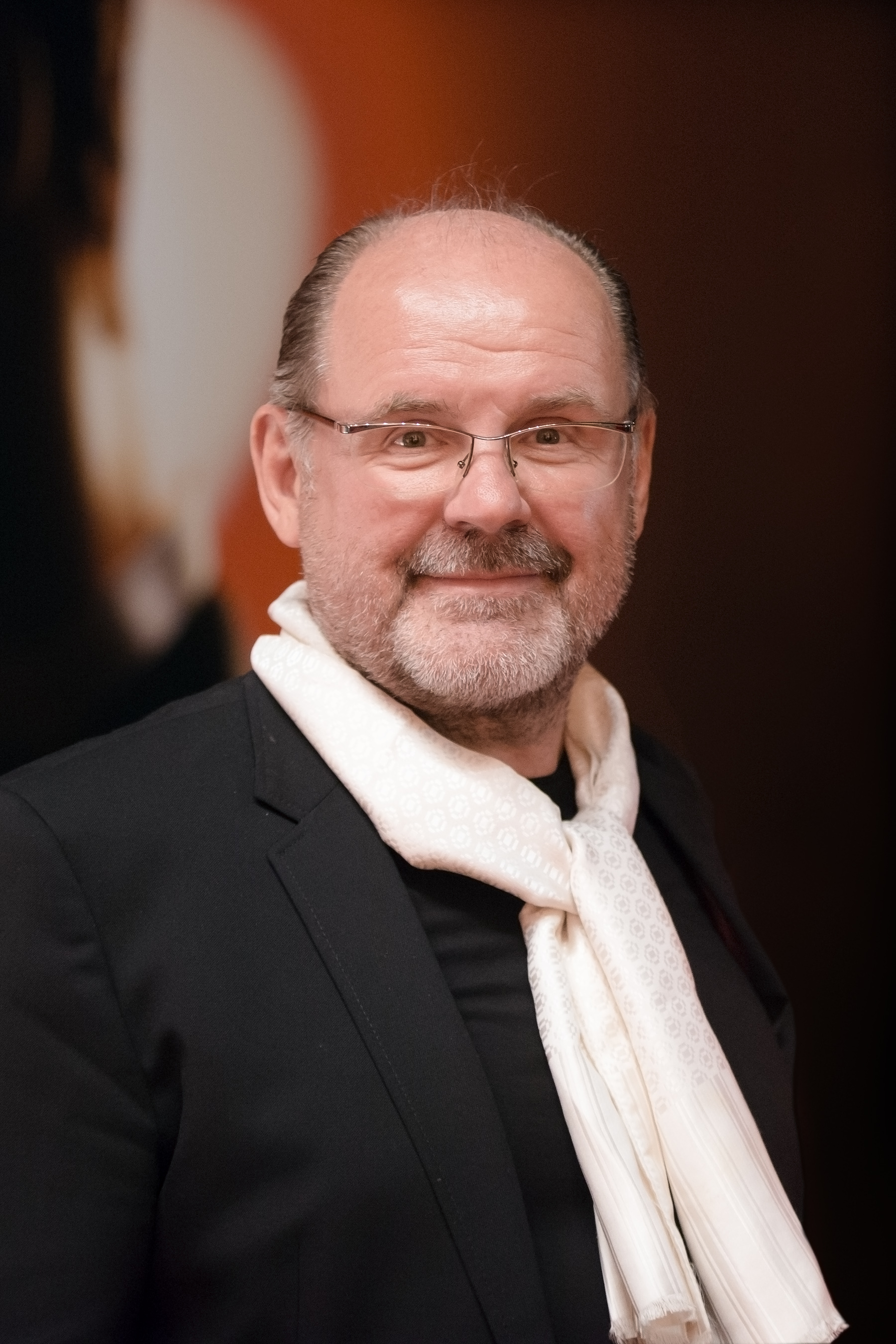 August Schmölzer on the red carpet of the Romy TV awards 2016 at Hofburg Palace in Vienna, Austria.